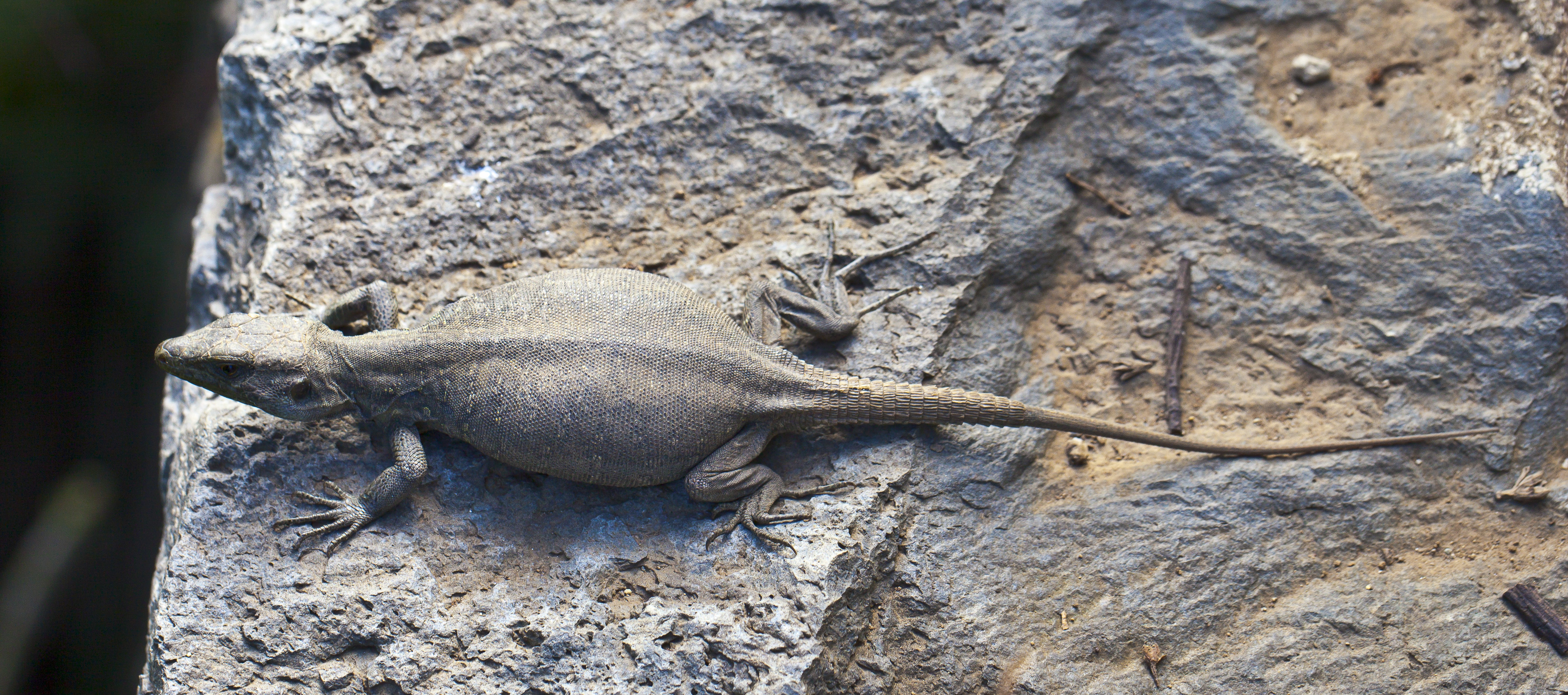 Tenerife Lizard (Gallotia galloti), Icod de los Vinos, Tenerife, Spain